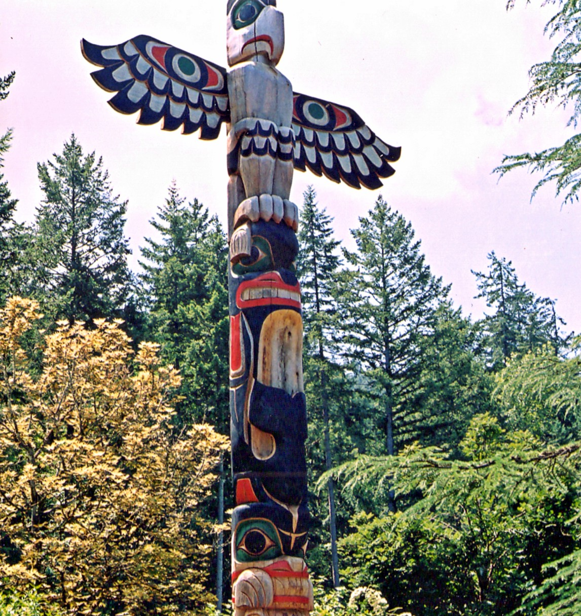 Totem Pole at Butchart Gardens near Victoria, British Columbia